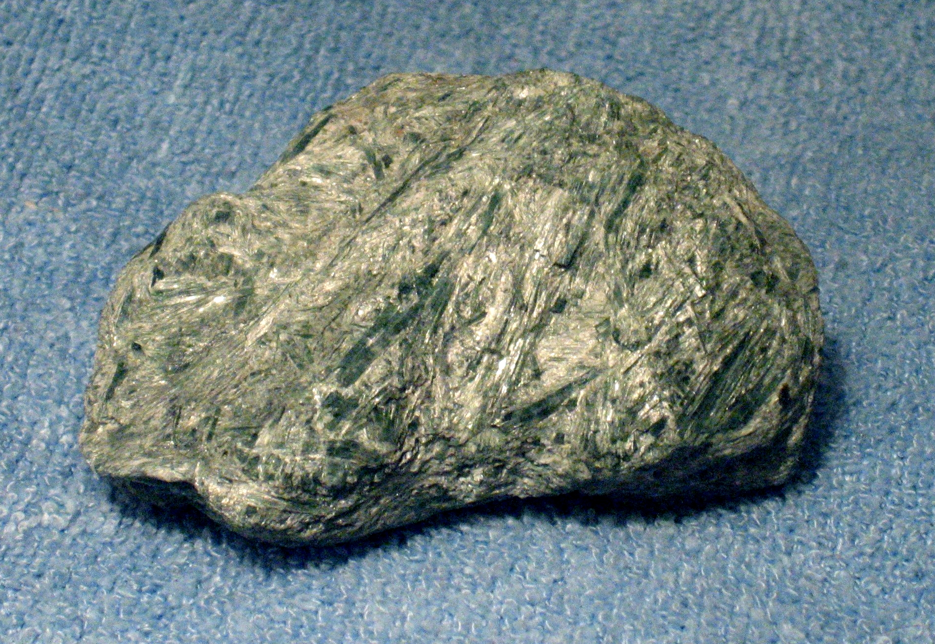 Actinolite mineral